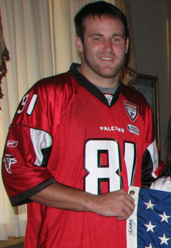 Michael Palmer, tight end of the Atlanta Falcons during a trip to Ft. McPherson.